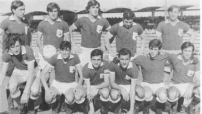 The Ferro Carril Oeste team that obtained the 1970 Primera B title.